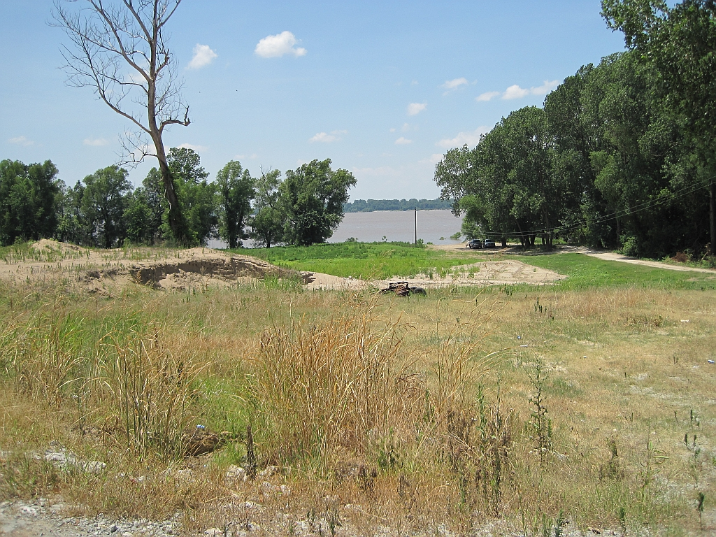 Randolph, Tennessee, Ballard Slough Road. Future site of the Randolph Bluff Historic Park.